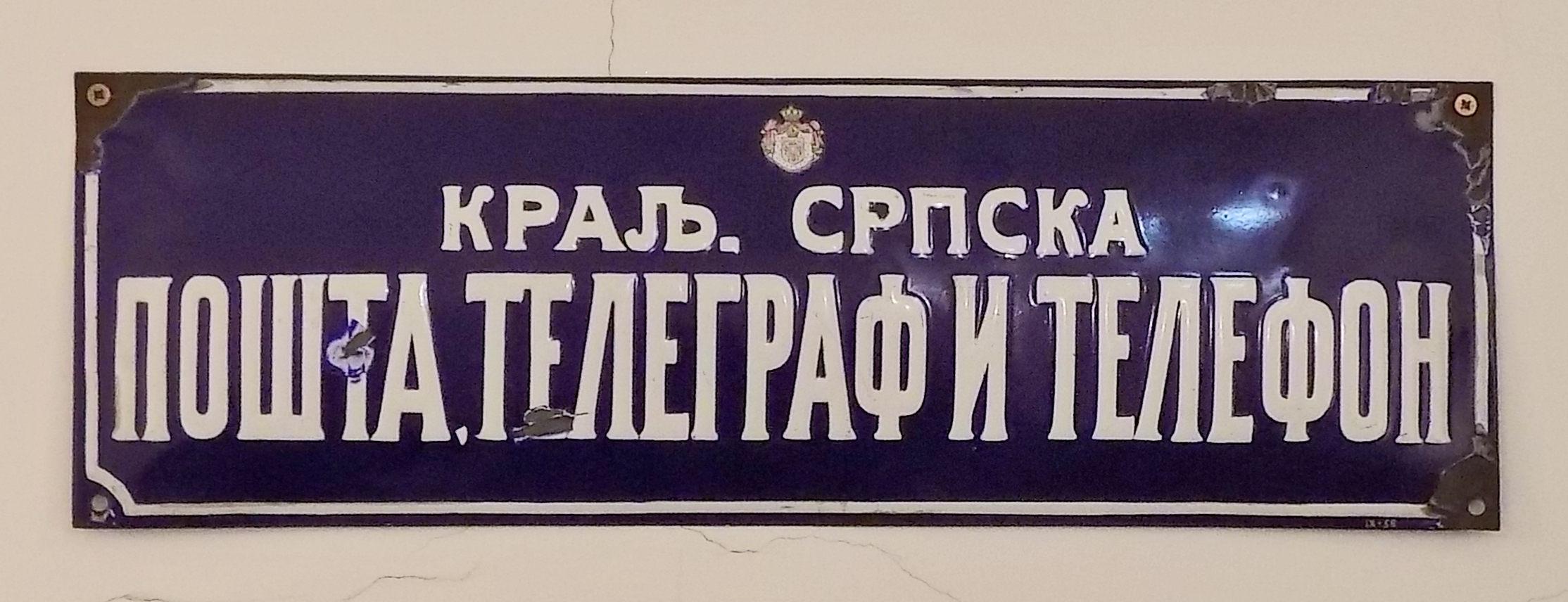 Name plate for a post office in Kingdom of Yugoslavia (PTT Museum in Belgrade, Serbia)